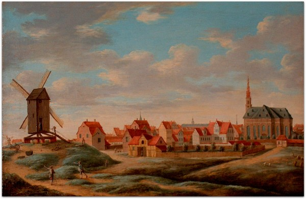 Lille Mølle, Prinsessegade and Vor Frelsers Kirke seen from Christianshavns Vold in Copenhagen, Denmark